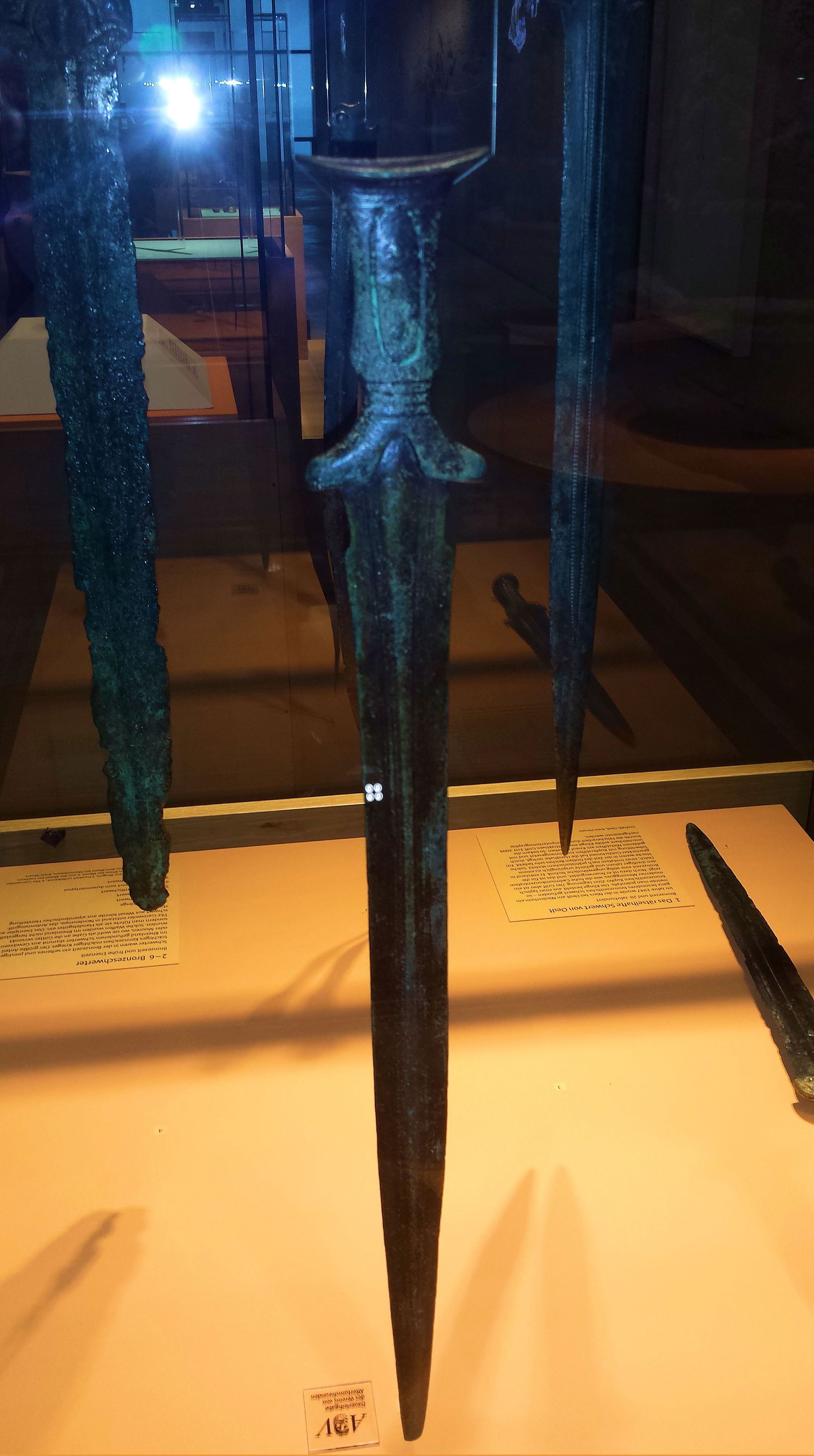 Sword from Bronzeage Auvernier Type